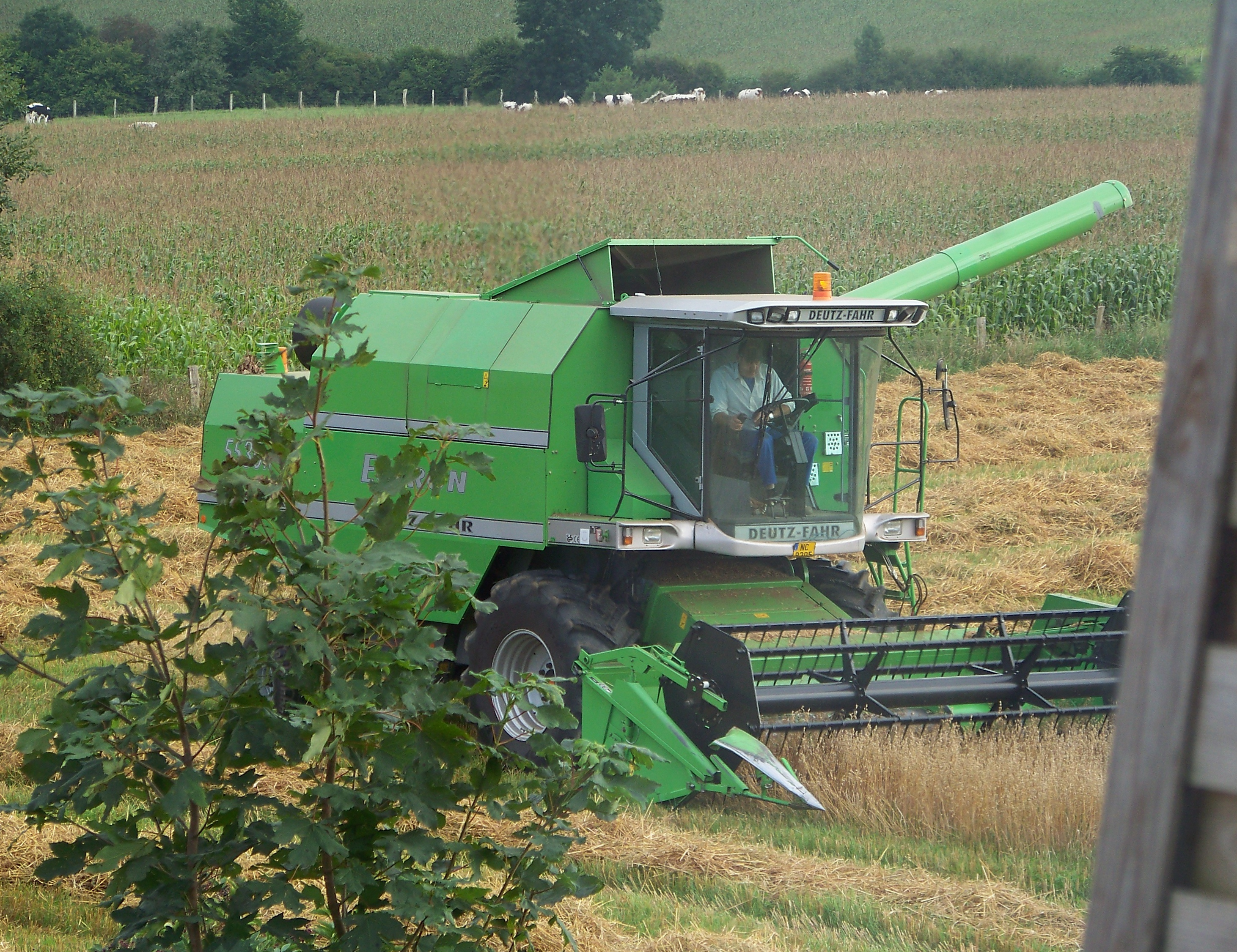 A Deutz-Fahr Ectron 5530 H combine harvesting oat in Luxembourg